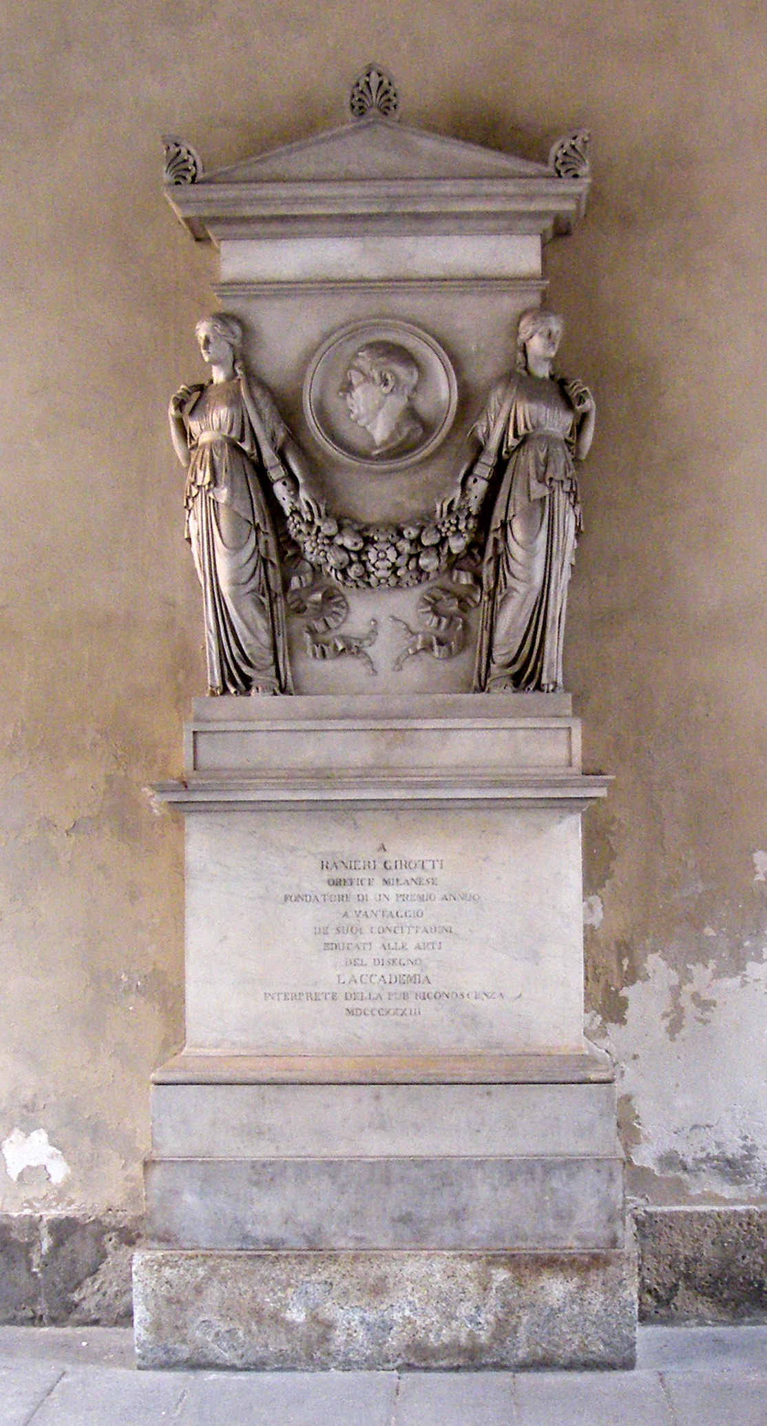 Monument erected in 1833 (signed: G. Motelli") to jeweller Ranieri Girotti, benefactor of the Accademia di Brera, near the entrance of Palace of Brera at Milan. Picture by Giovanni Dall'Orto, January 19 2007.